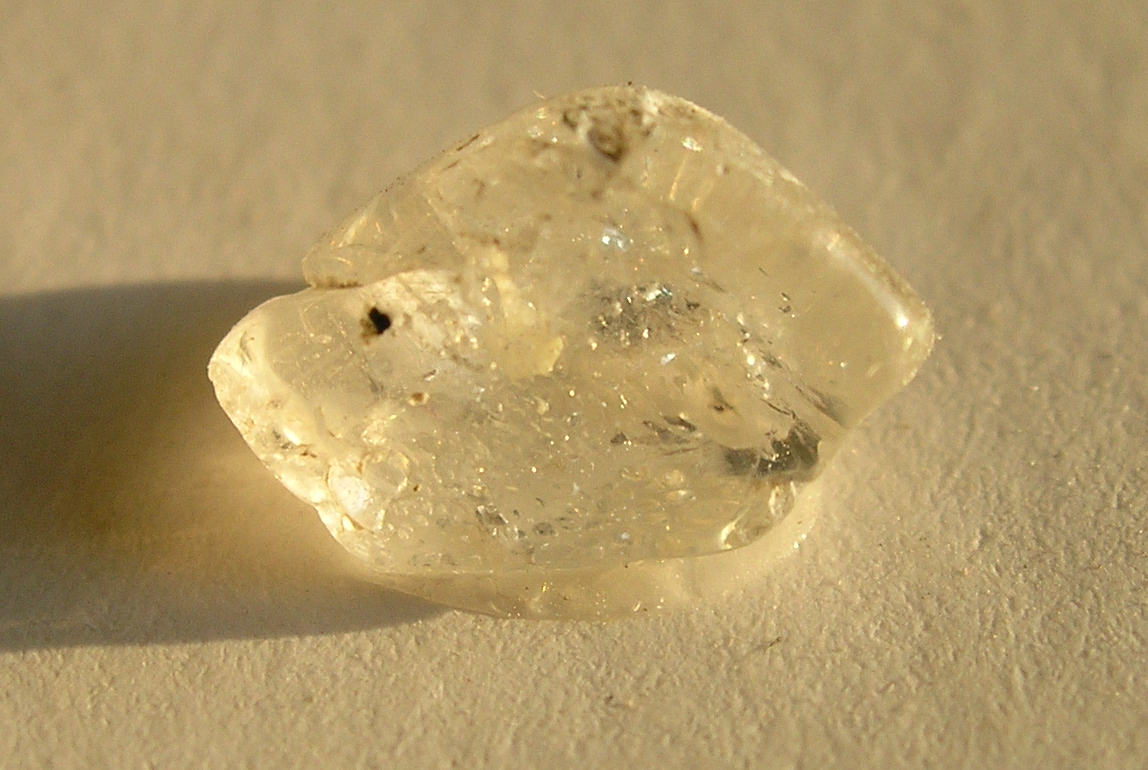 Quartz glass from Ural, Russia.